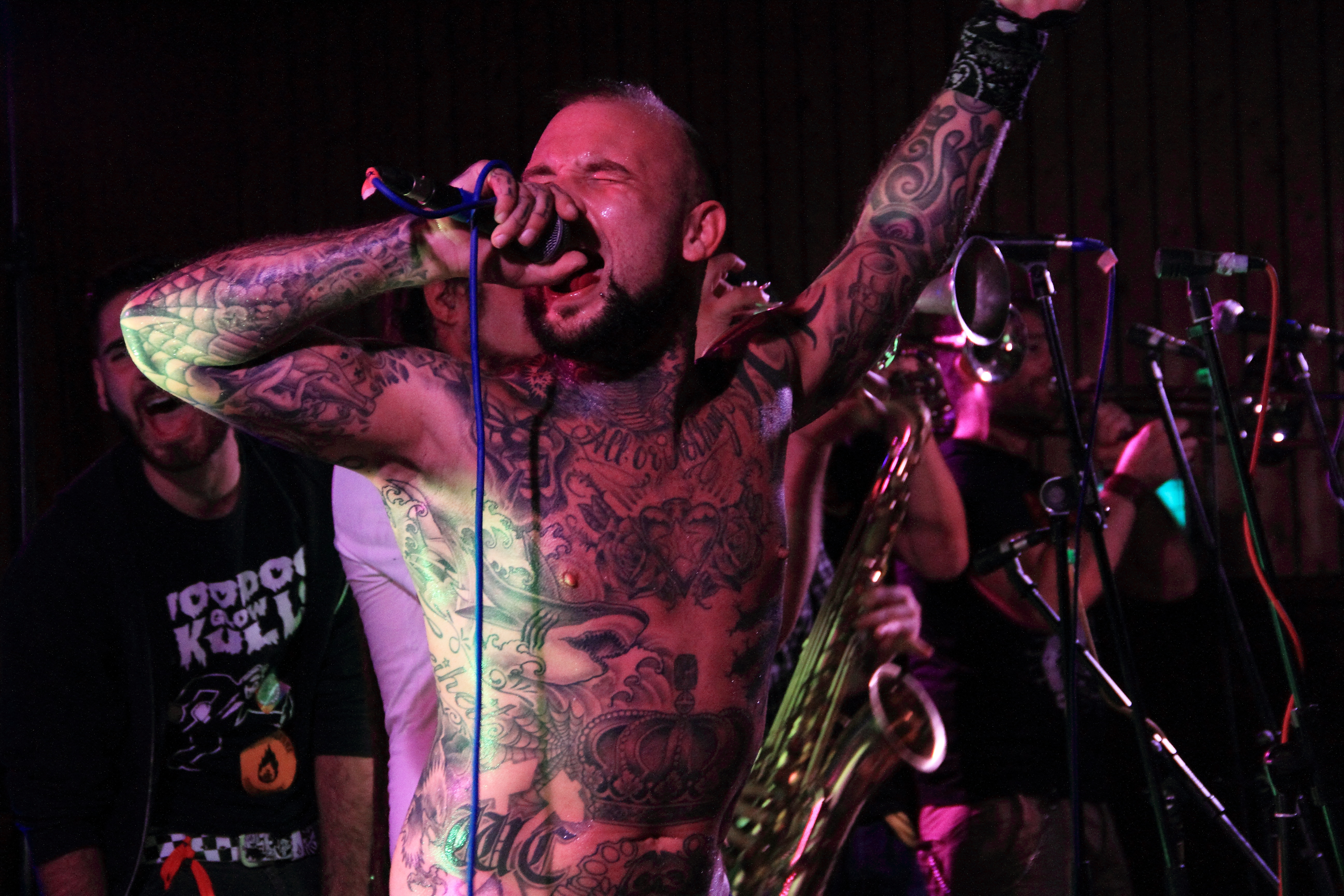 Skafield is a ska-band from Saarland. Here´s there show at the concert Diversity-Leben in Vielfalt (Diversity-Living in plurality), september 2015 in Bad Mergentheim.